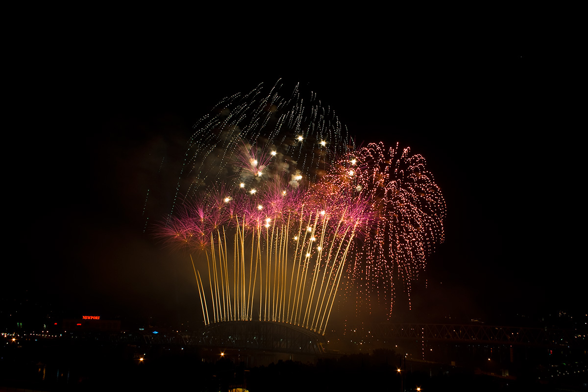 Rozzi Family Fireworks as seen from 900 Adams Crossing, Cincinnati, Ohio, 45202, during the annual Labor Day Fireworks display for the Cincinnati_Bell/WEBN_Riverfest.